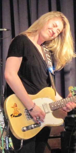 Joanne Shaw Taylor live at the Scarborough Rugby Club, New Generation of British Blues Tour, 16th May 2010.